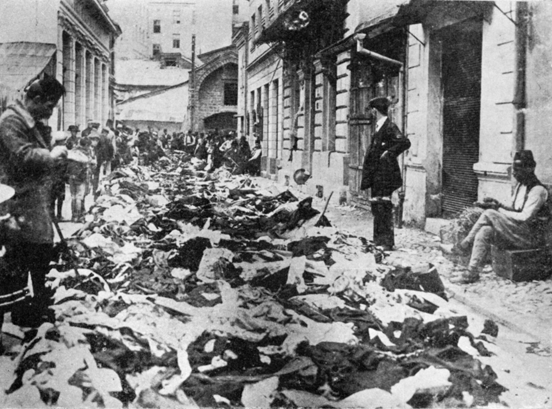 Devastated and robbed shops owned by Serbs in Sarajevo 1914 following Sarajevo assassination. The Bezistan of Baščaršija can be seen in the background.